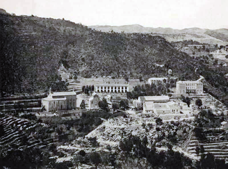 Vista del sanatorio de Fontilles en sus años iniciales